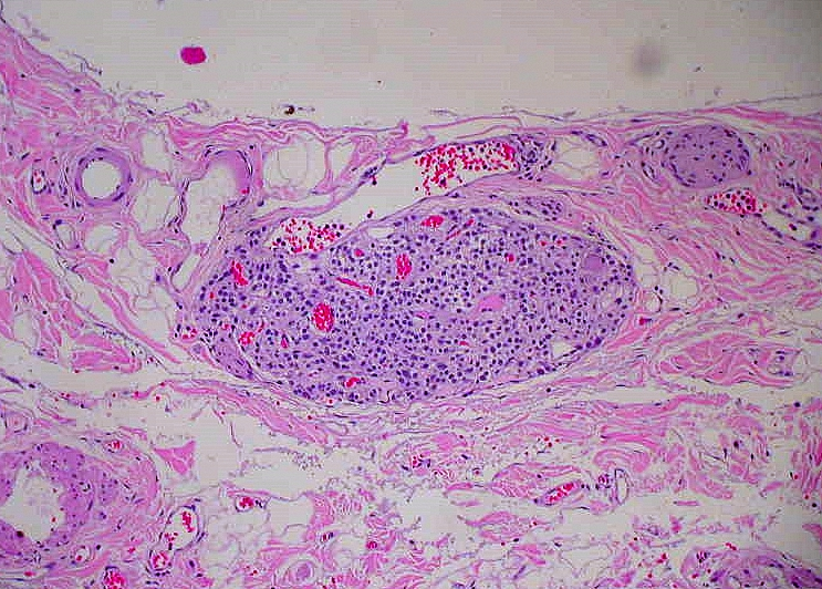 This was an incidental finding in a gallbladder removed for chronic cholecystitis